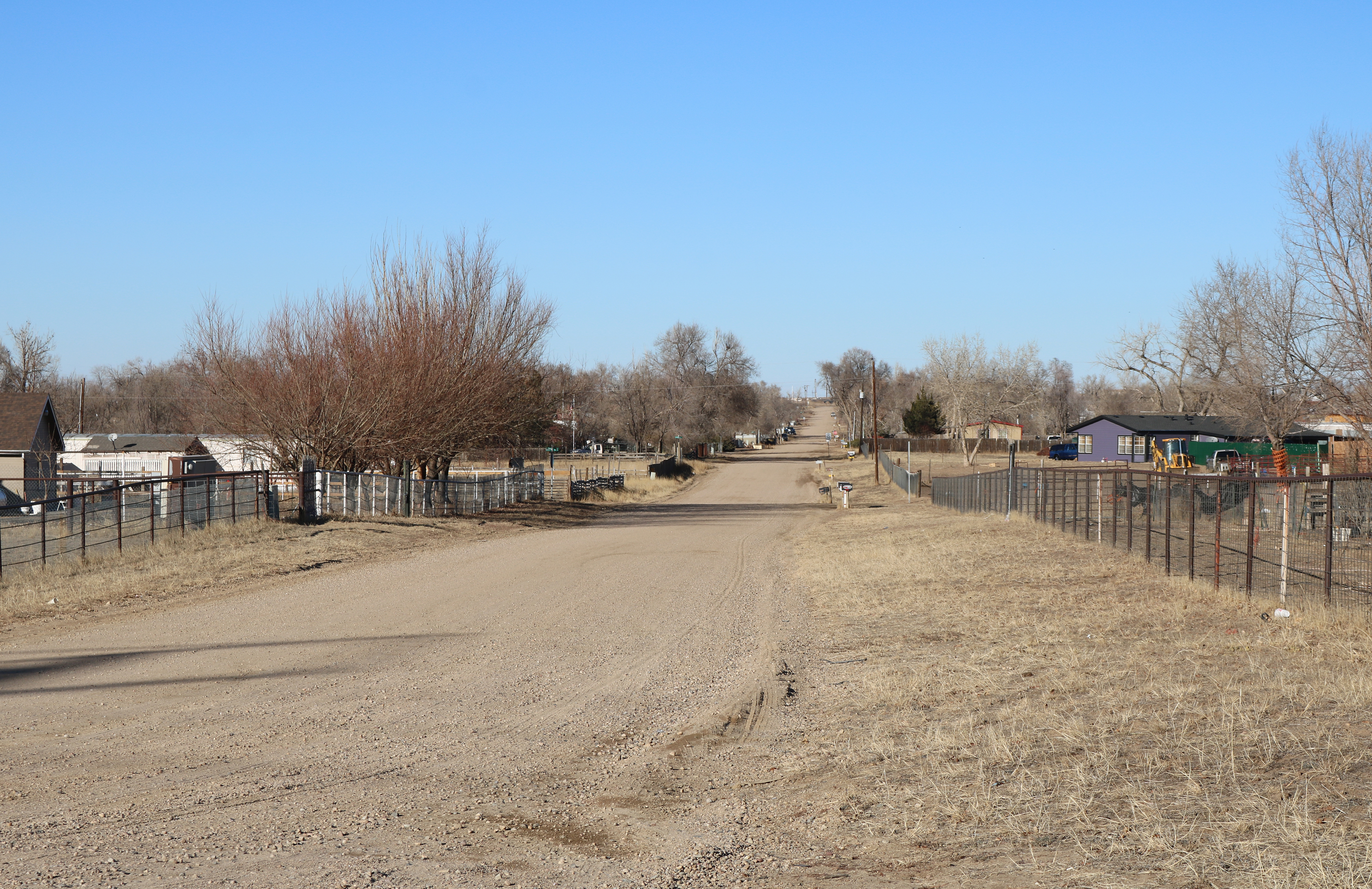 One of the streets in Aristocrat Ranchettes, a census-designated place in Weld County, Colorado.